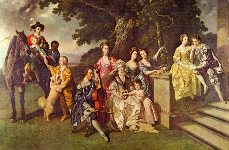 Sir William Young, 1st Baronet (1725–1788) and his family.